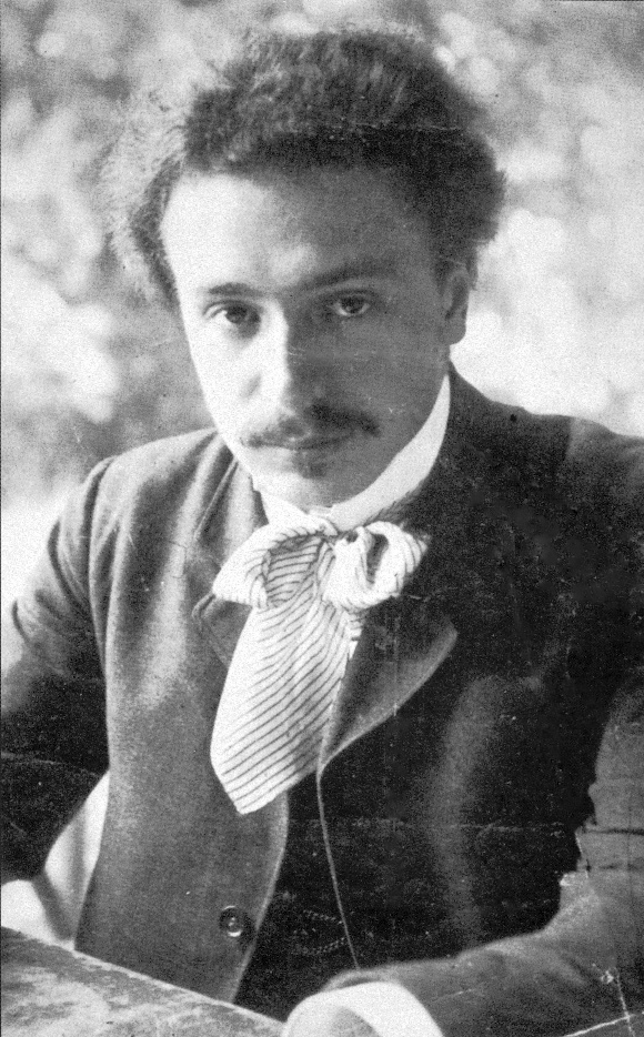 Photograph of the Russian-Lithuanian philosopher Vasili Sesemann (1884–1963).